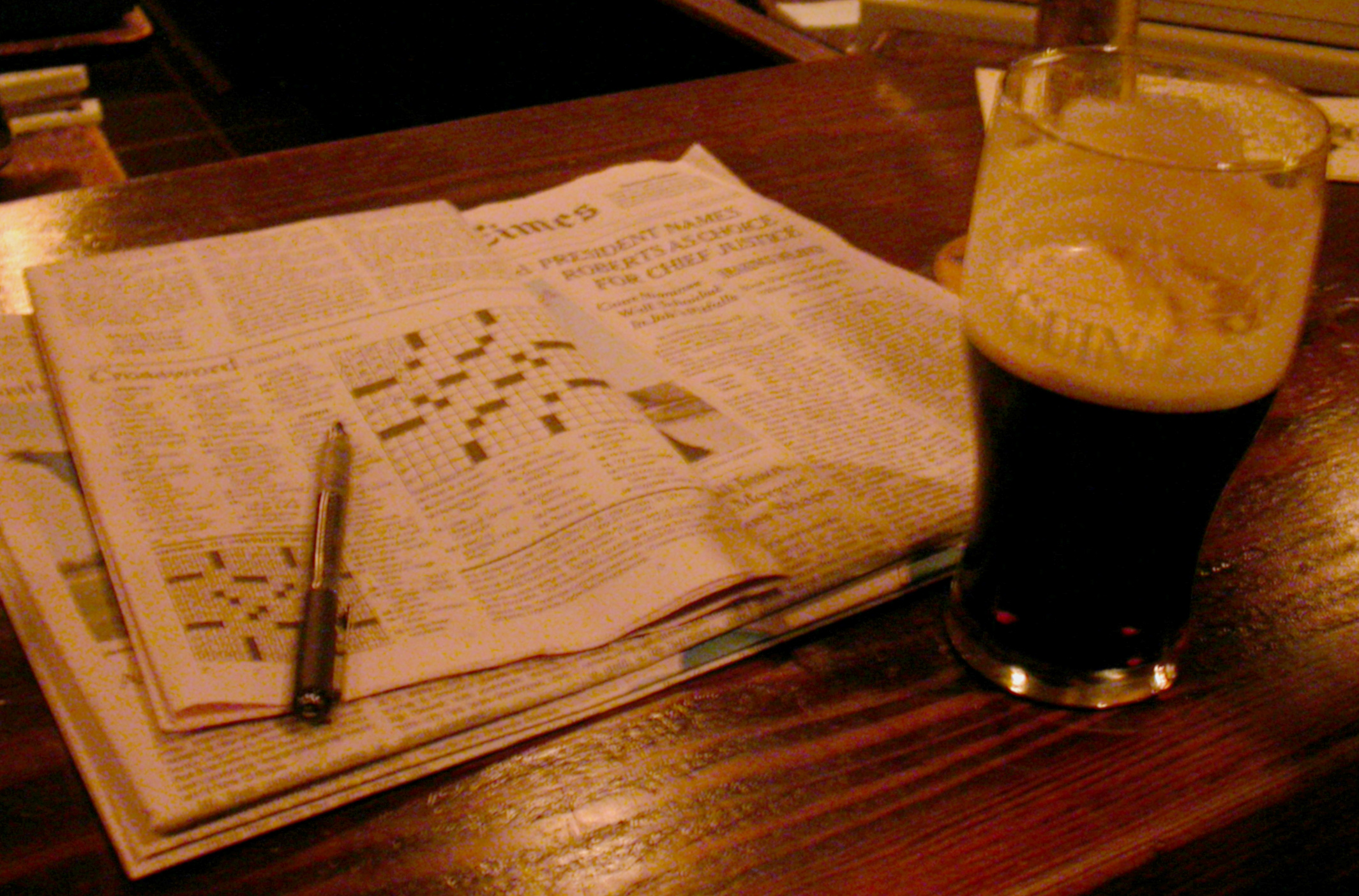 New York Times crosswords